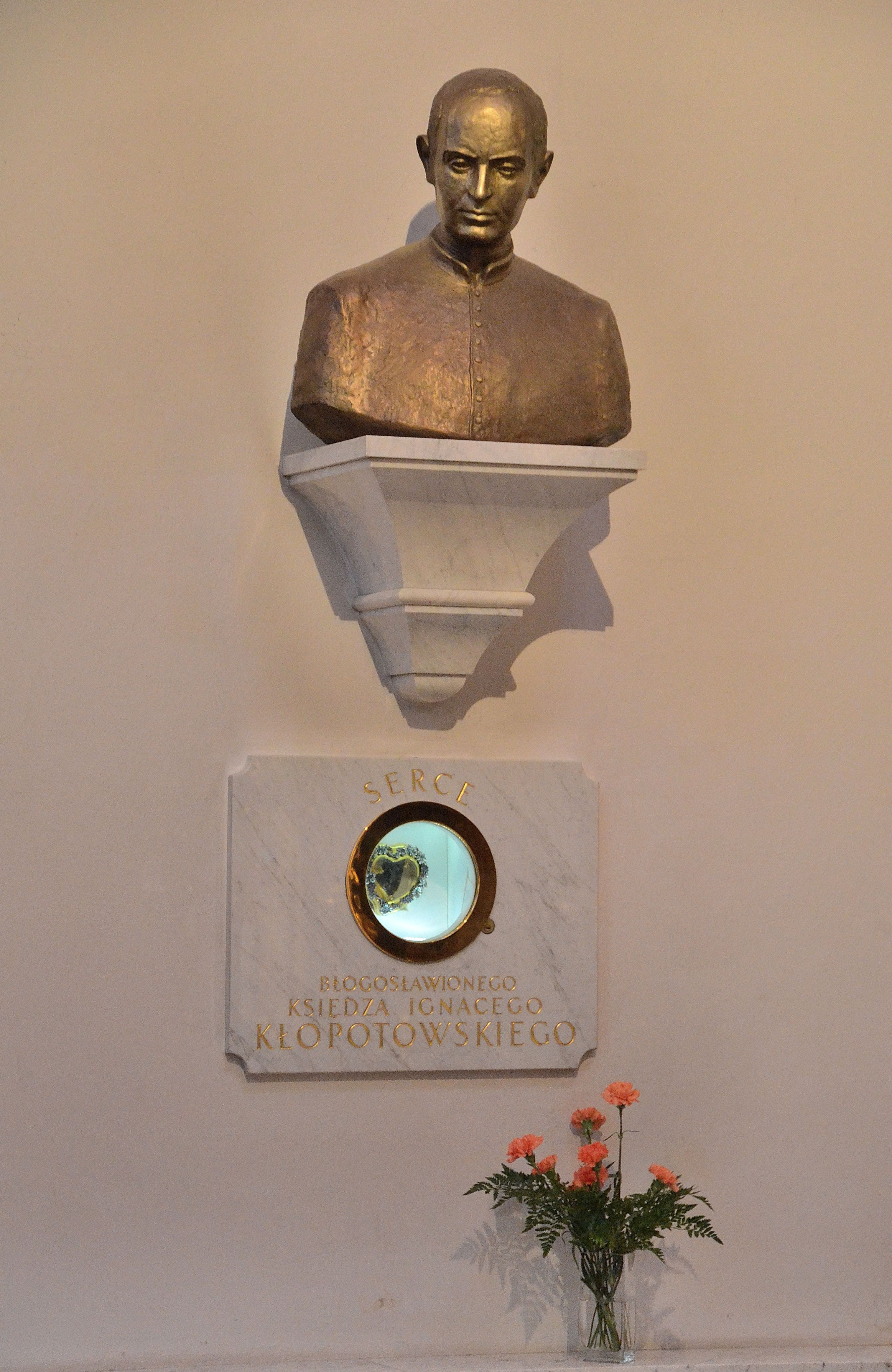 Bust and a reliquary with the heart of Ignacy Kłopotowski at Saints Michael Archangel and Florian Basilica in Warsaw